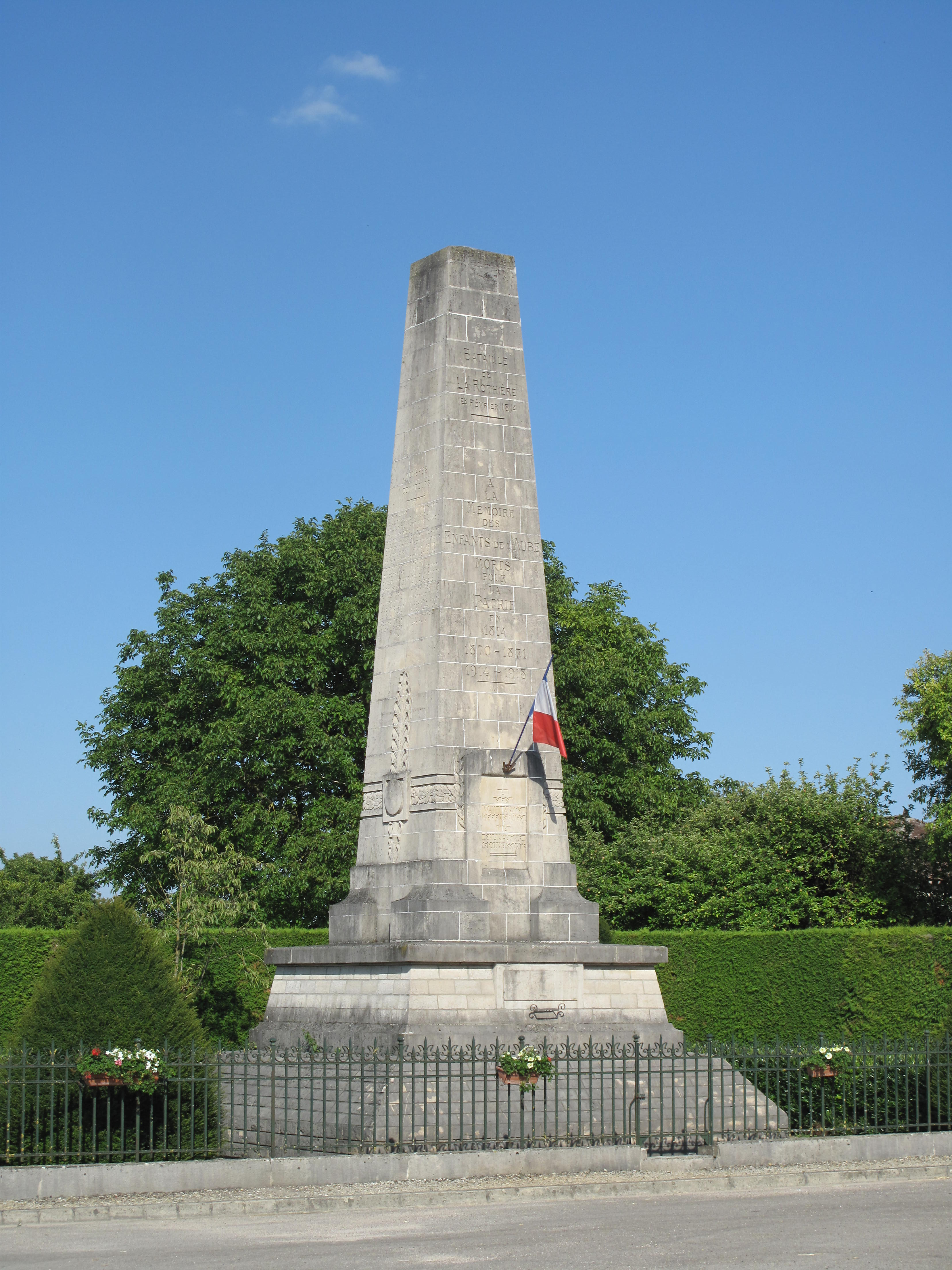 Monument to the battle of la Rothière 1st feb. 1814 (Aube, France).